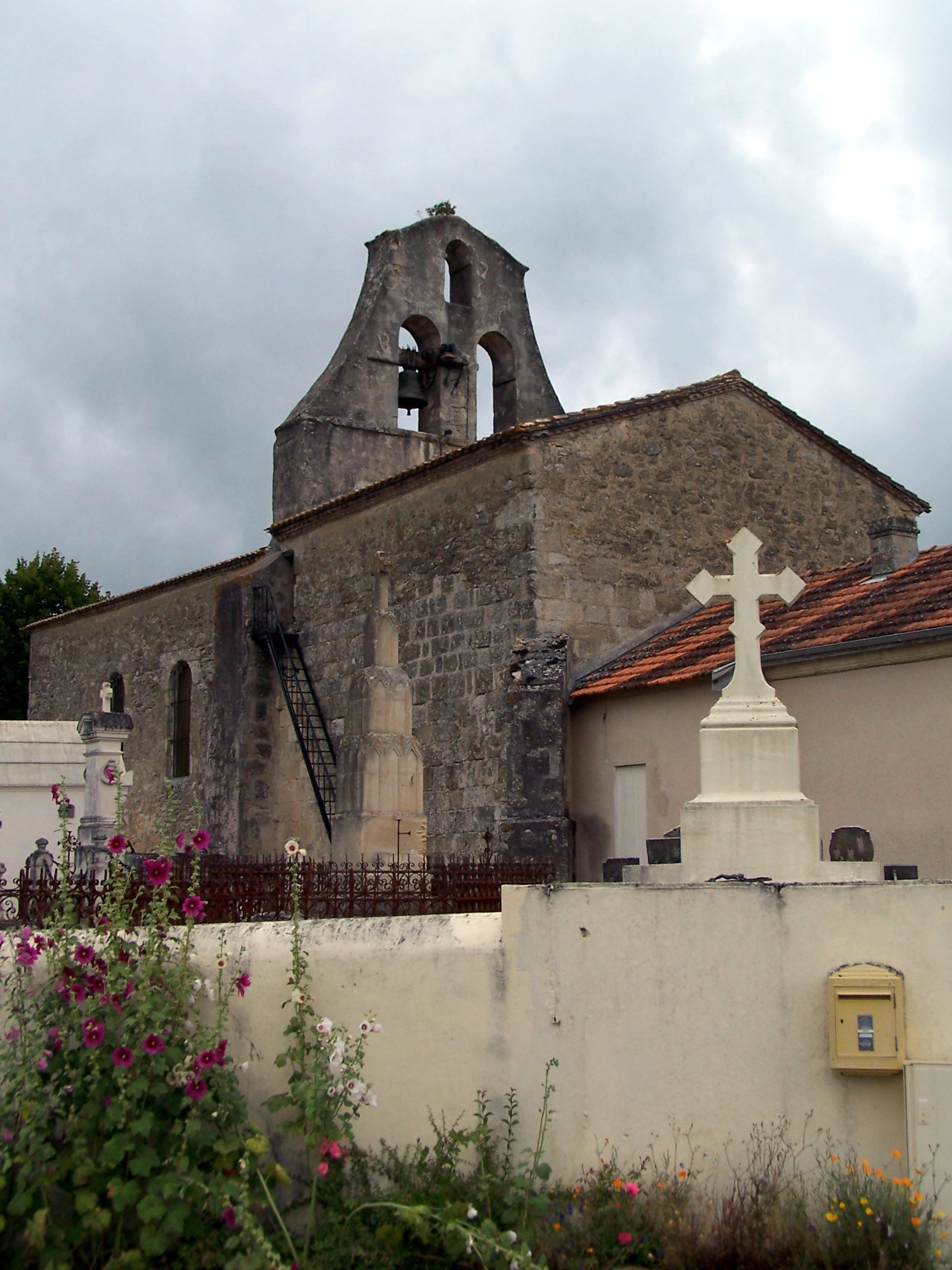 Church Saint-Pierre of Auriolles (Gironde, France)